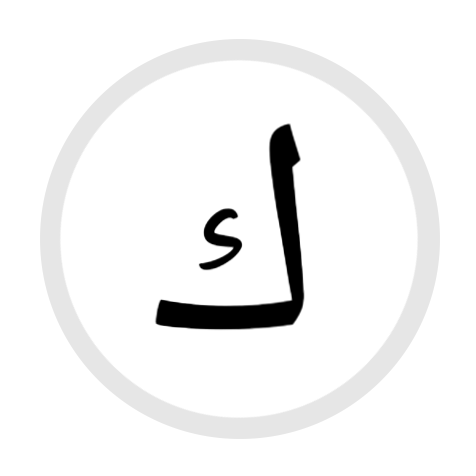 HS Letter (arabic alphabet)